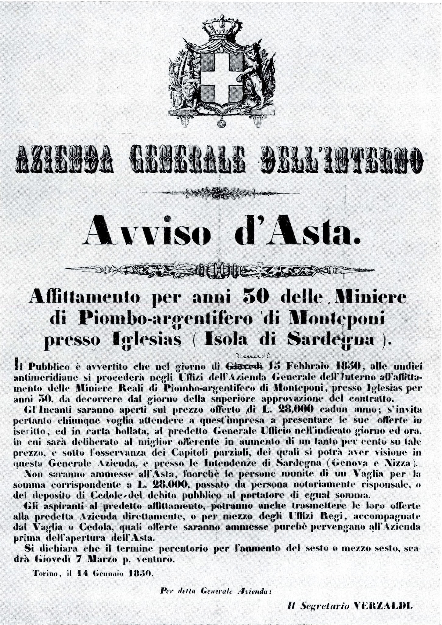 Auction for Monteponi mine